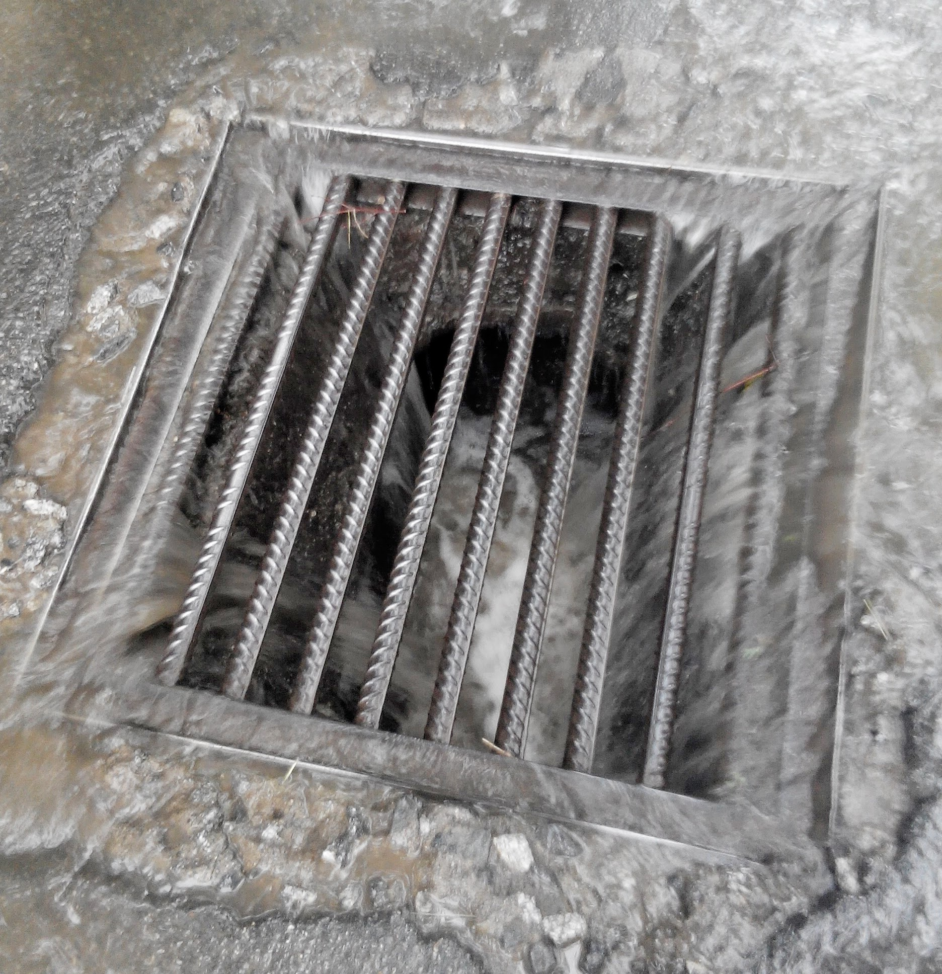 Customly repaired rain sewer after cover theft